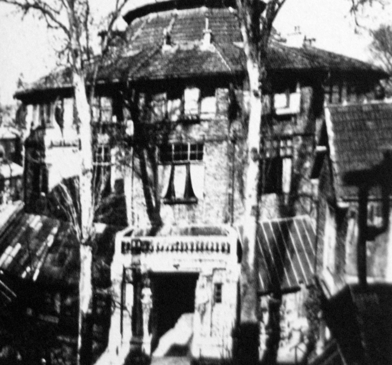 Studio la Ruche in Montparnasse where Modigliani had his sculpture studio , image circa 1918